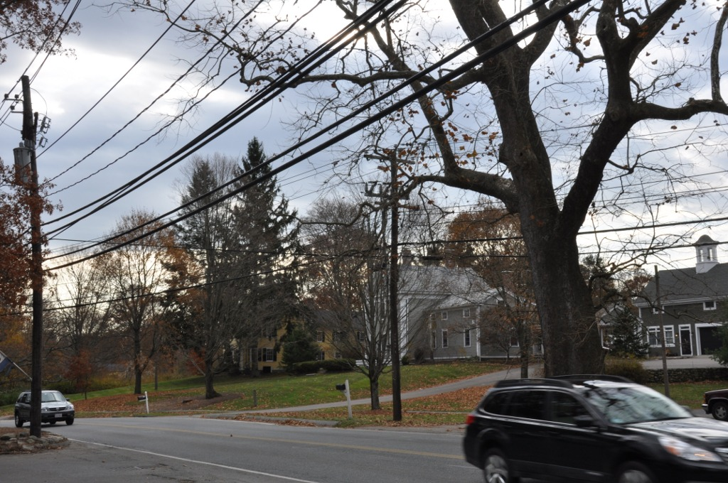 North Main Street in Sherborn, Massachusetts, part of the Edward's Plain-Dowse's Corner Historic District.